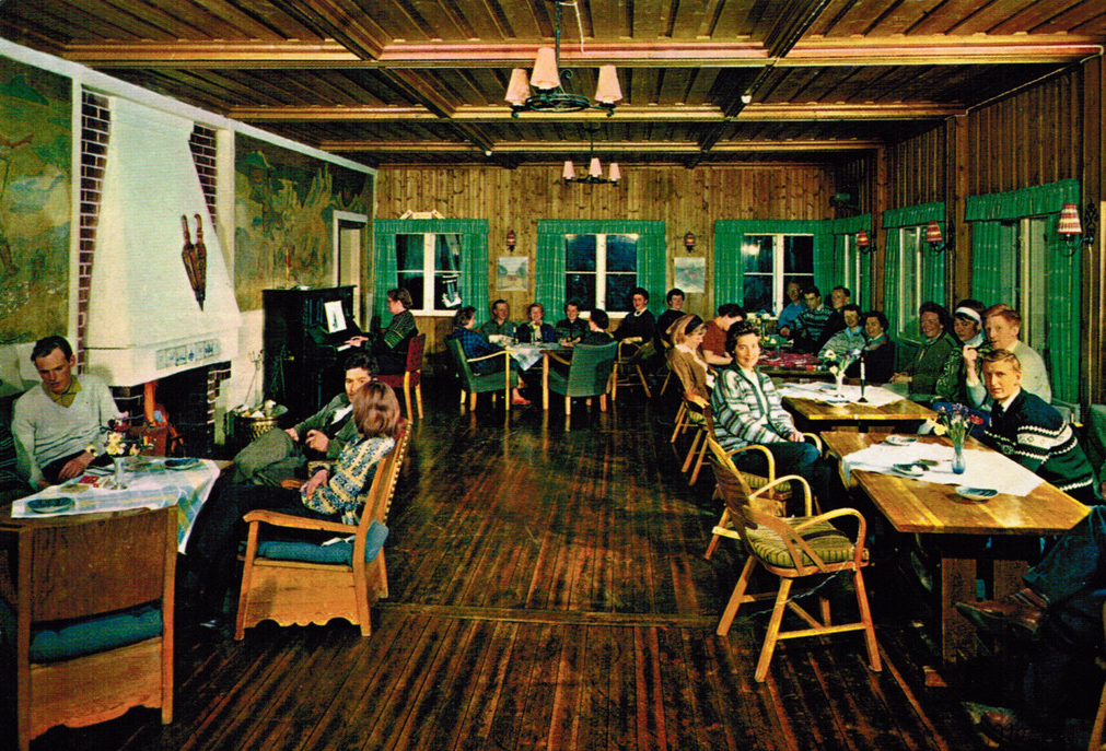 Mjølfjell Youth Hostel